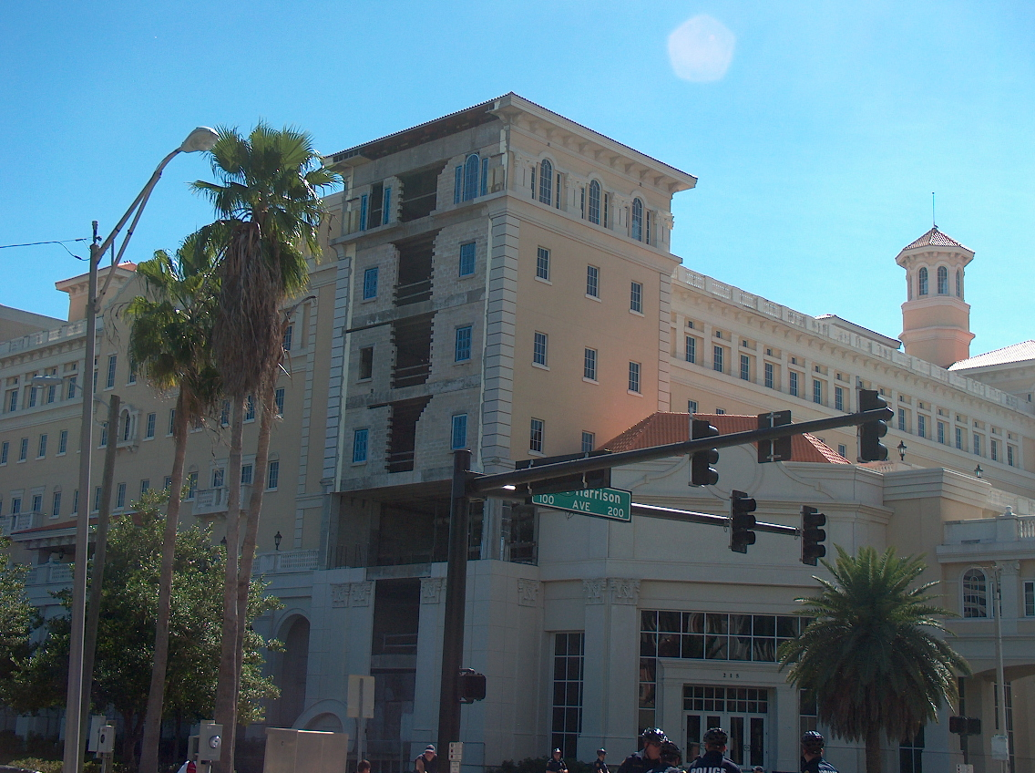 Super Power Building northwest corner view